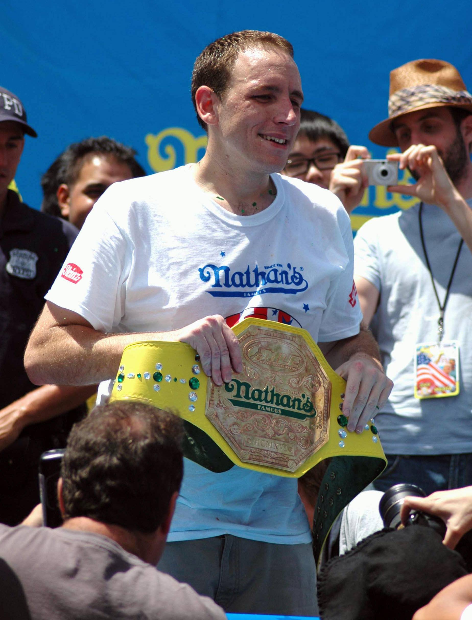 Joey Chestnut has logged his third consecutive win in Coney Island's annual hot dog eating contest with a world-record 68 franks. He defeated his arch-rival, six-time titleholder Takeru Kobayashi, in Saturday's bout. Chestnut led throughout the contest. (original text)